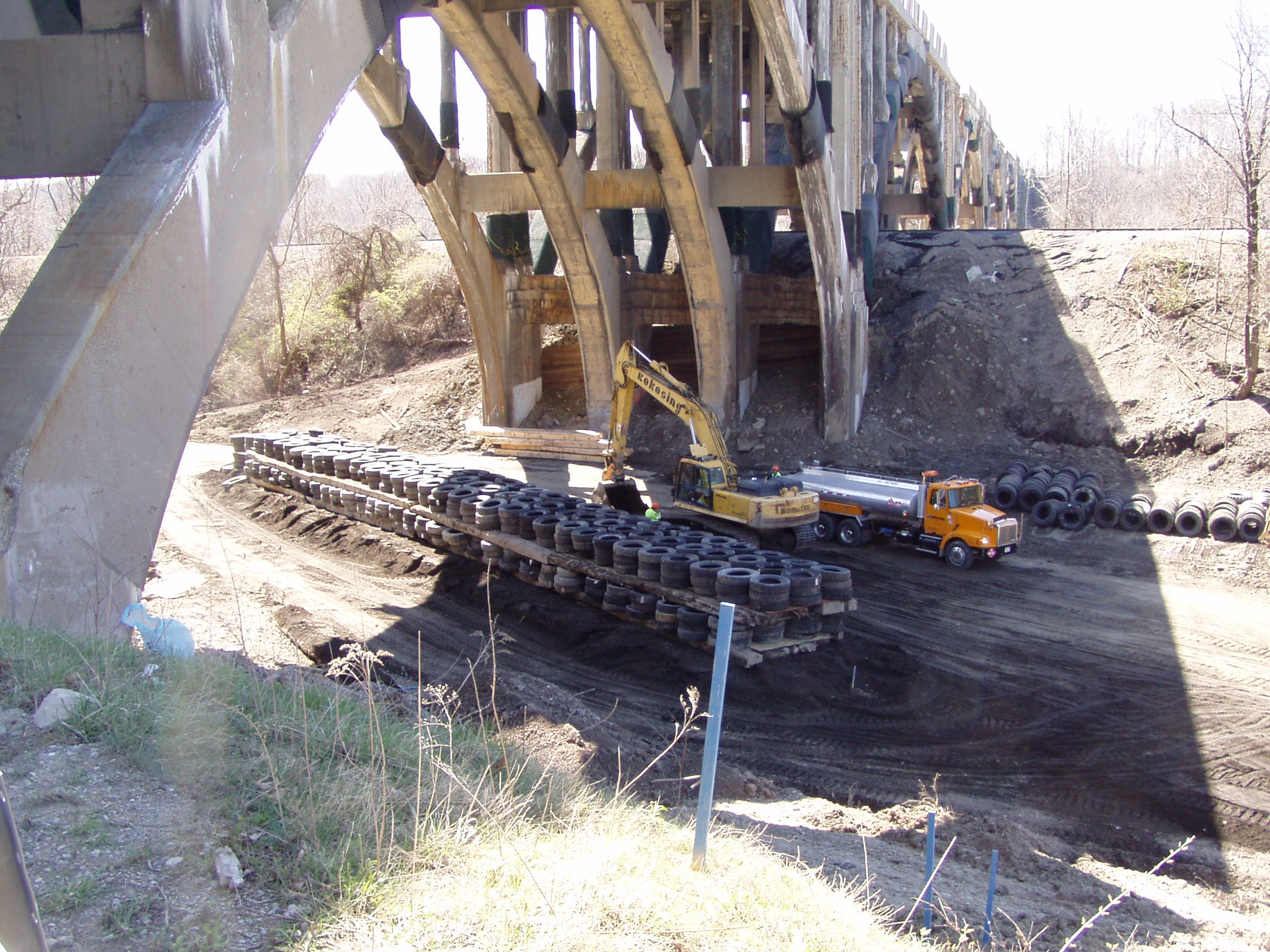 A contractor places over 1,200 old tires above a 42" water transmission main to protect it from the Fulton Road bridge demolition. The main loops back under the bridge, so this was repeated at another location further south.